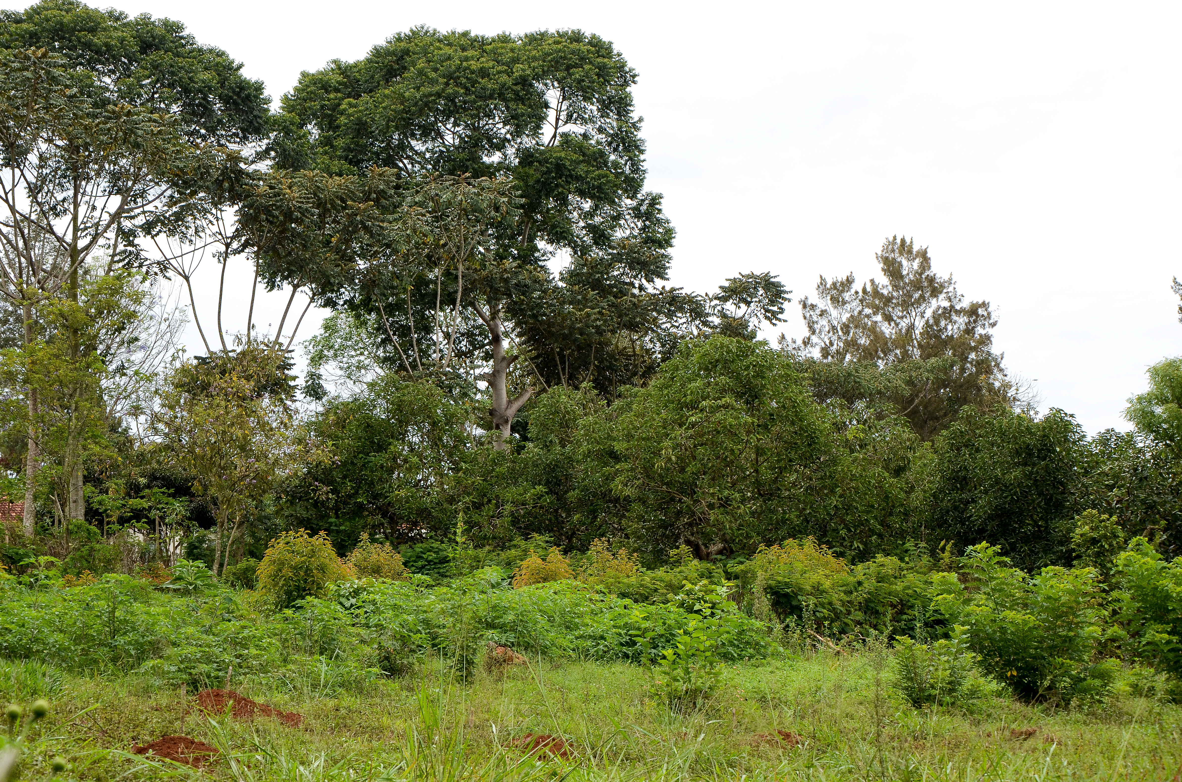 Agroforestry in Masaka Uganda. September 2013.